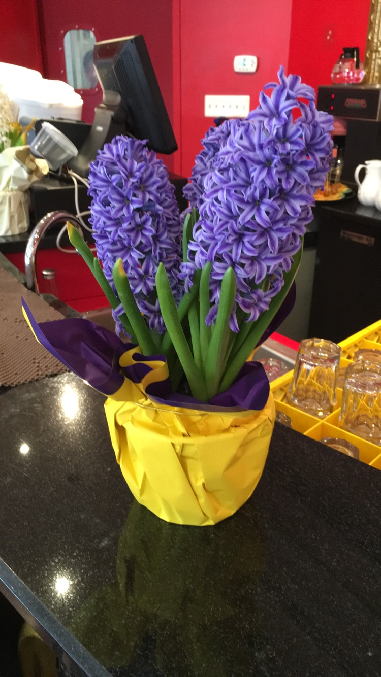 Sonbol is a flower of Nowruz, in english it is called "Hyacinth."